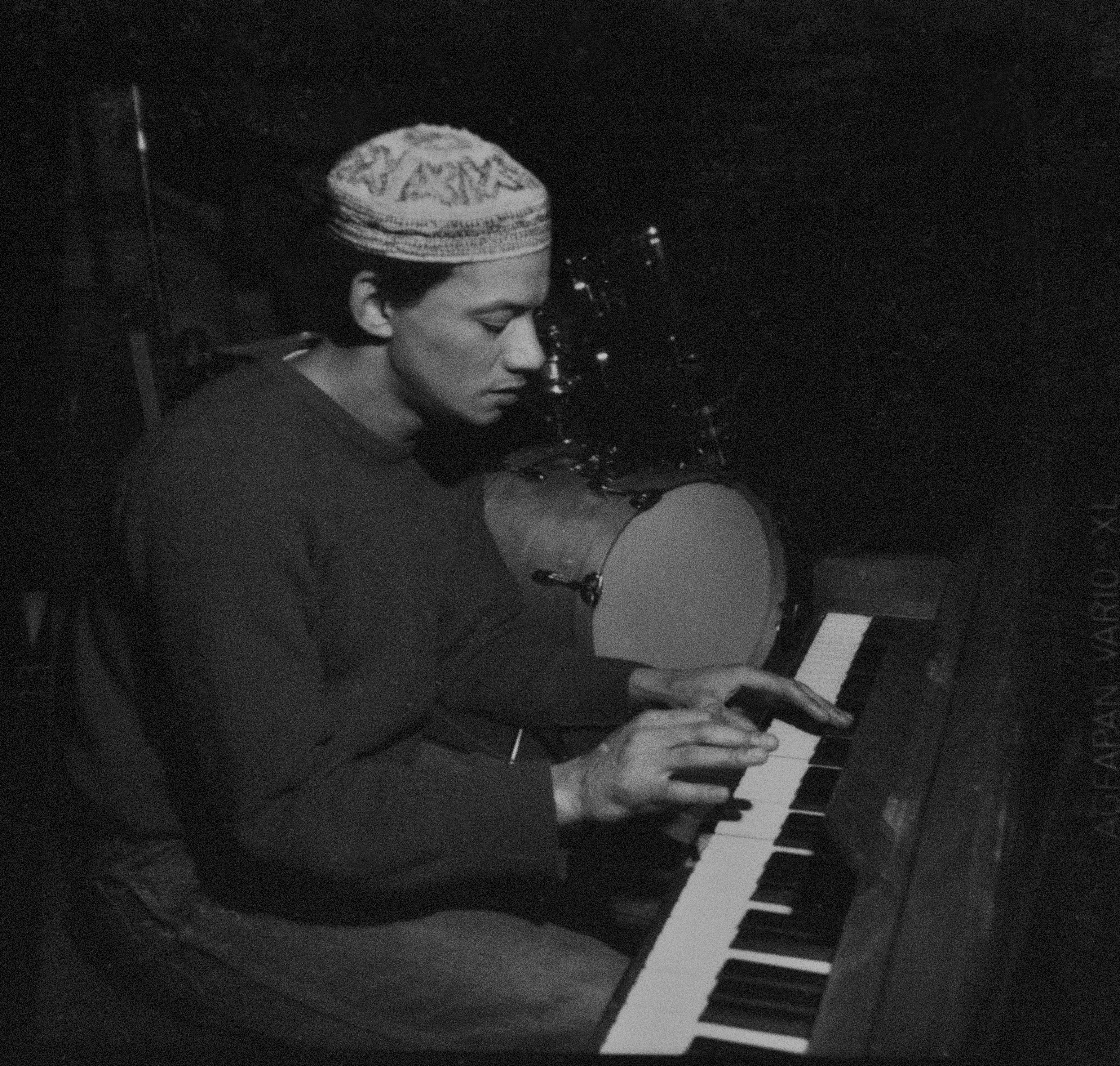 Mervyn Africa on piano, at the Elephant & Castle, London 1983